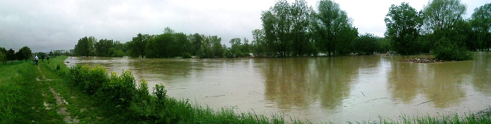 Flooding in Jaslo - river Wisloka